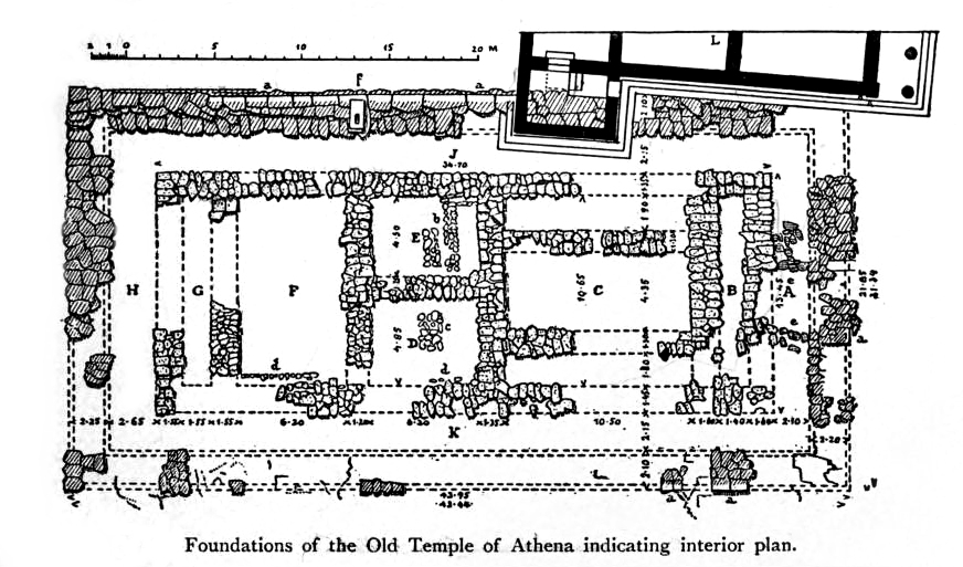 Foundations of the Old Temple of Athena